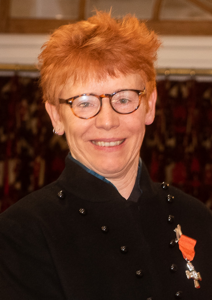 Devon Polaschek, after her investiture as MNZM, for services to criminal psychology, at Government House, Wellington, on 17 September 2019.